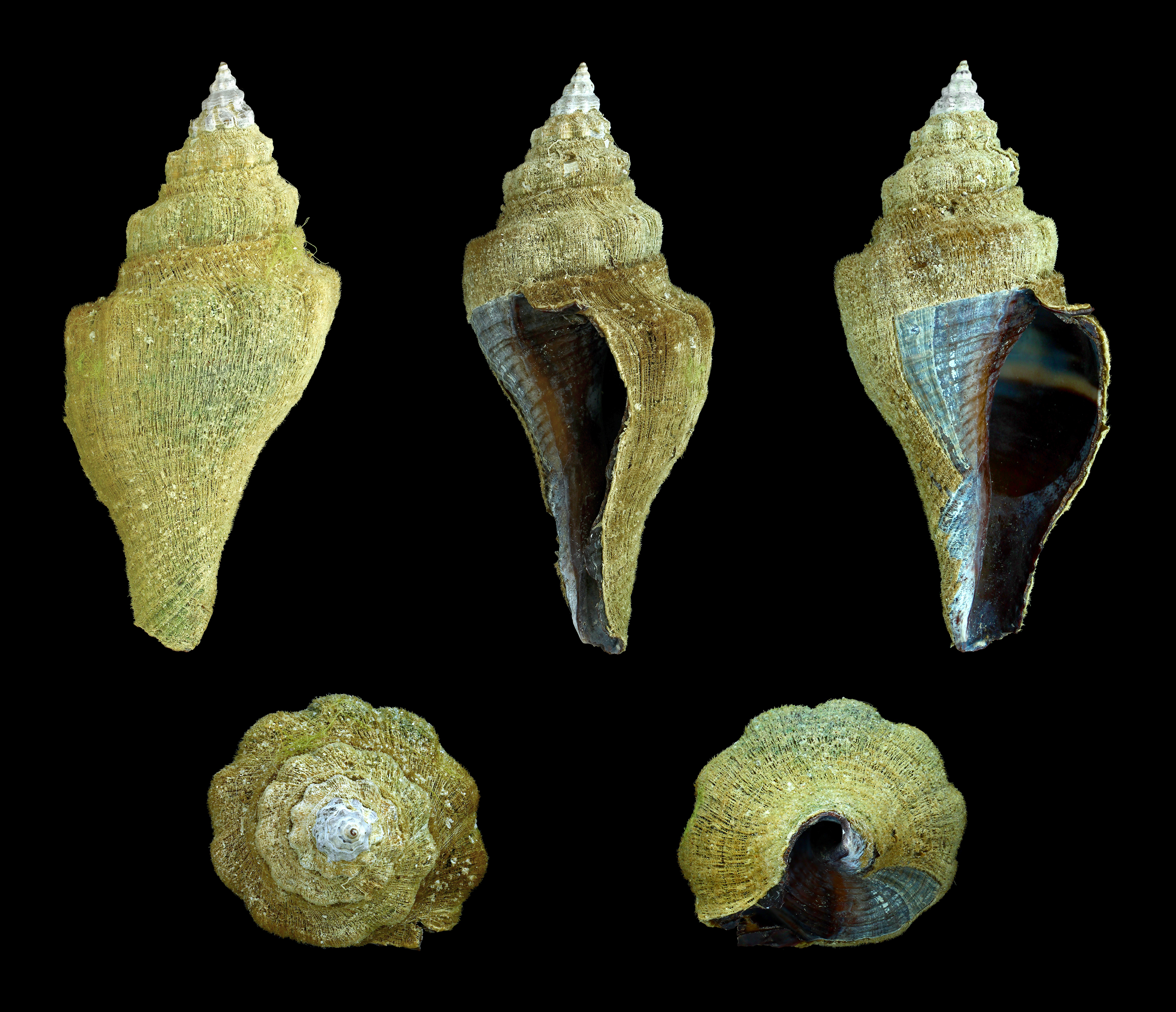 Giant Hairy Melongena; Length 8.2 cm; Originating from Nouadhibou, Mauretania; Shell of own collection, therefore not geocoded. Dorsal, lateral (right side), ventral, back, and front view.